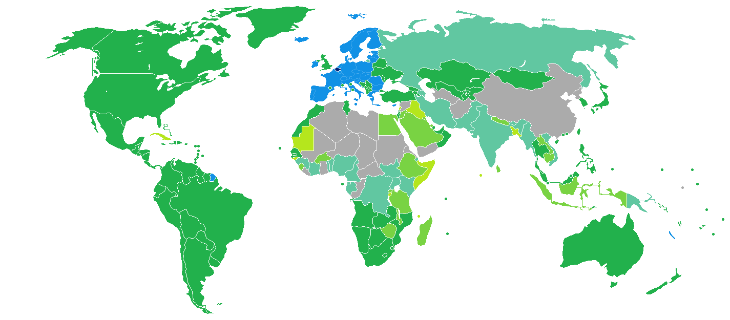 Visa requirements for Belgian citizens Belgium Freedom of movement Visa not required Visa on arrival eVisa Visa available both on arrival or online Visa required prior to arrival